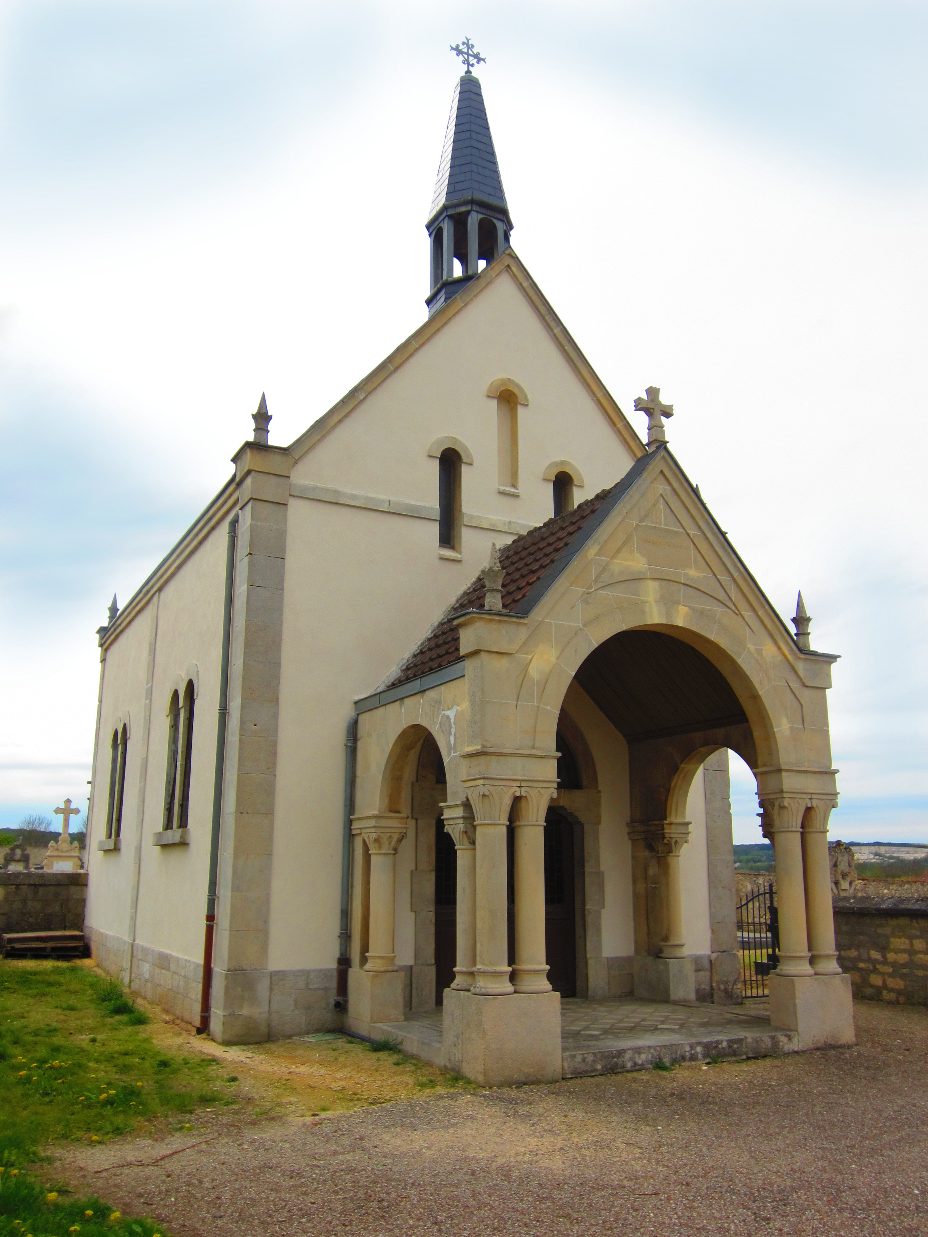 Maizey chapel